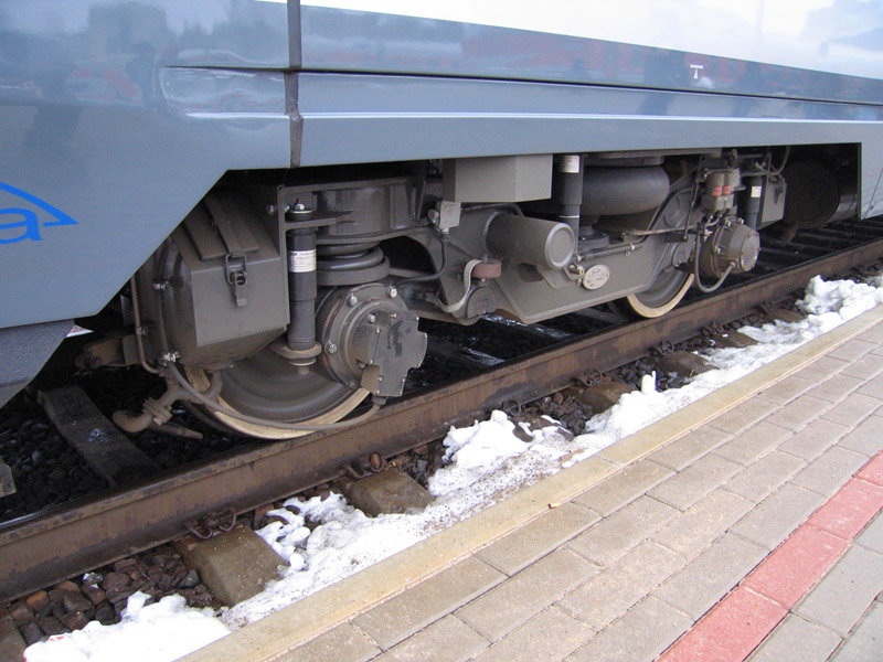 Railcar PESA 620M in Vilnius train station 2009.